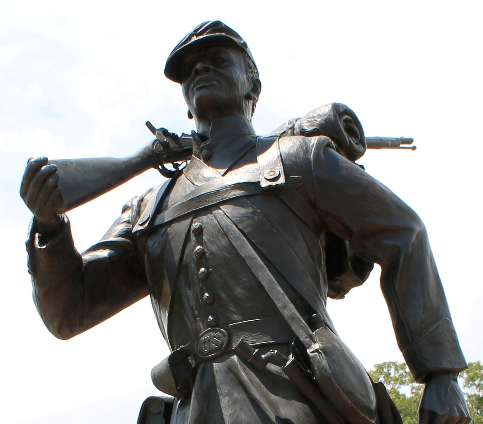 United States Colored Troops Memorial Statue in Lexington Park, Maryland, the memorial and accompanying informational kiosks honors and documents the bravery of more than 600 African-American soldiers from St. Mary's County Maryland who fought as Union Army soldiers during the American Civil War. Includes a display on two who won the Medal of Honor, Close-up view, skyward.